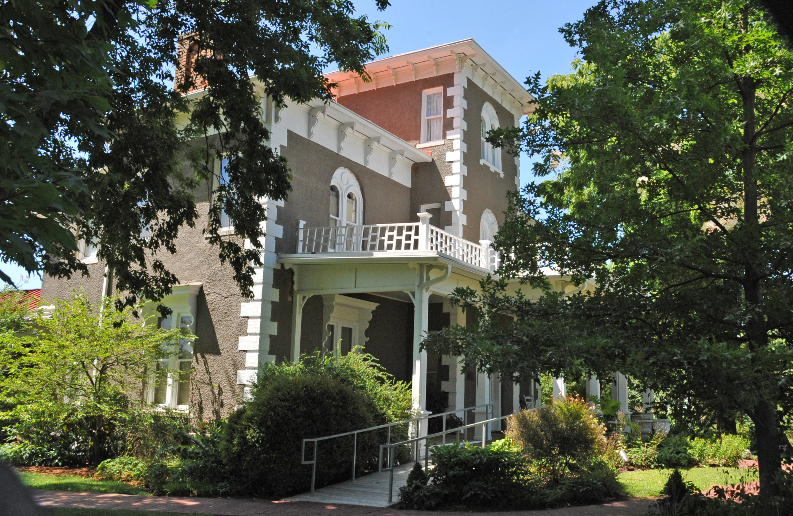 BUILT CIRCA 1875 FOR A PROMINENT LOCAL POLITICIAN AND BUSINESSMAN, CONGRESSMAN, AND PRESIDENT OF THE FIRST NATIONAL BANK